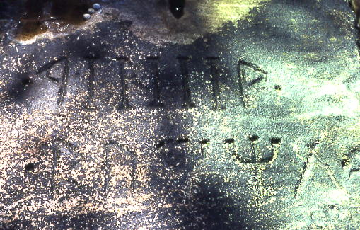 Rock carving along shoreline at Ashton Park, Mosman, New South Wales, Sydney (I have been told that this is an example of Cirth, the language used in the Lord of the Ring novels, which may make it a fairly rare example of the Cirth language in actual use) (Kodachrome slide originally shot in 1980s, scanned at low res)